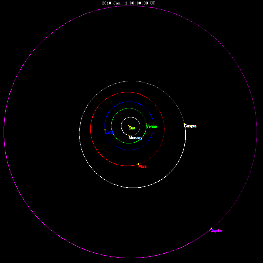 en:951 Gaspra orbit, with positions on Jan 1, 2018